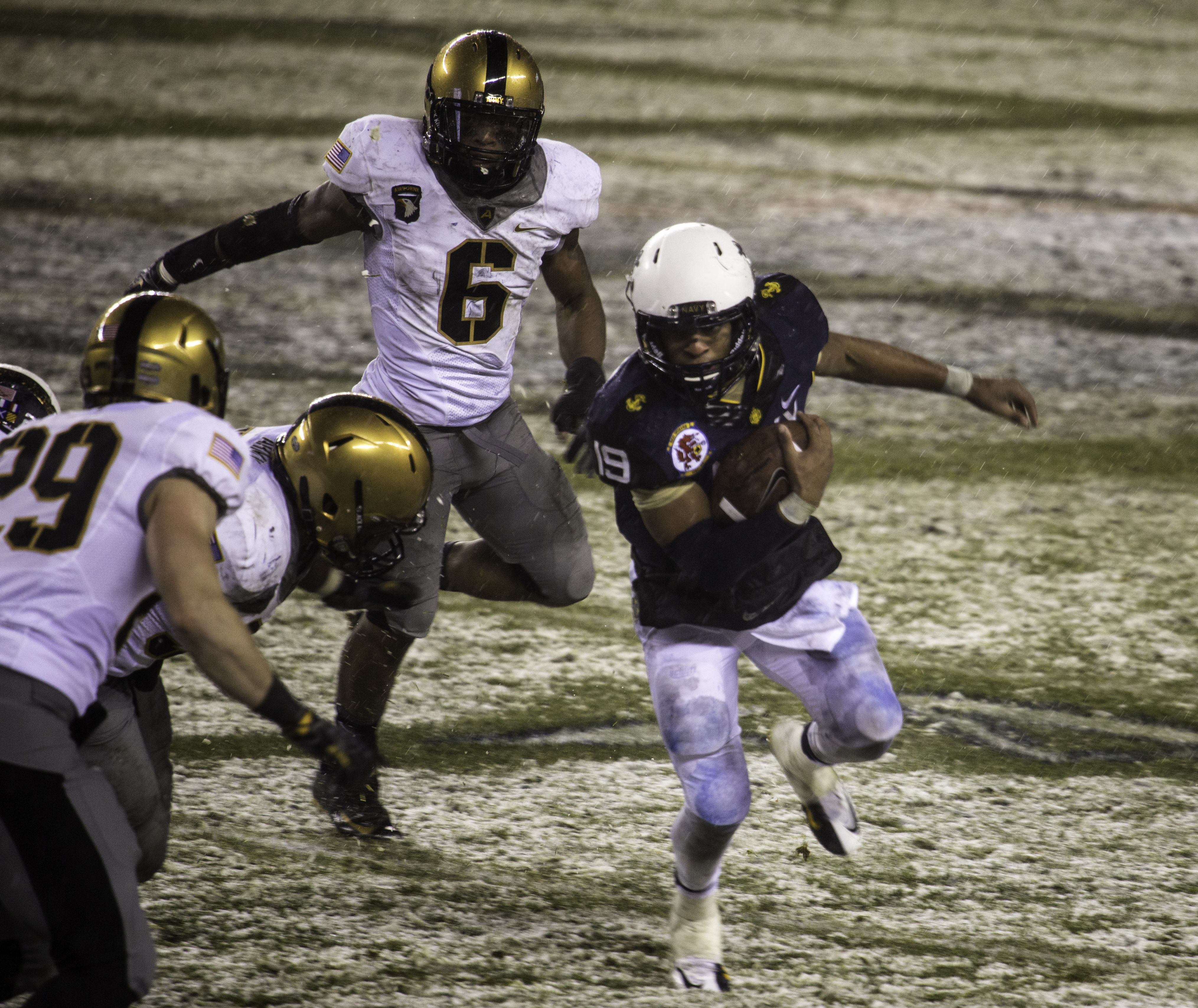 The quarterback for the Navy Midshipmen runs toward the first down during the third quarter of the 2013 Army/Navy football game, Dec. 14, 2013, Lincoln Financial Field, Philadelphia. The Navy Midshipmen defeated the Army Black Knights with a score of 34-7. (U.S. Army photo by Spc. Philip Diab/Released) Unit: 55th Combat Camera DVIDS Tags: Philadelphia; Army Black Knights; Army football; snow; Black Knights; Army Navy football game; Lincoln Financial Field; Navy football; Navy; West Point; Blue Angels; Army; Navy Midshipmen; Americas game; Americas rivalry; Midshipen; Army vs Navy 2013